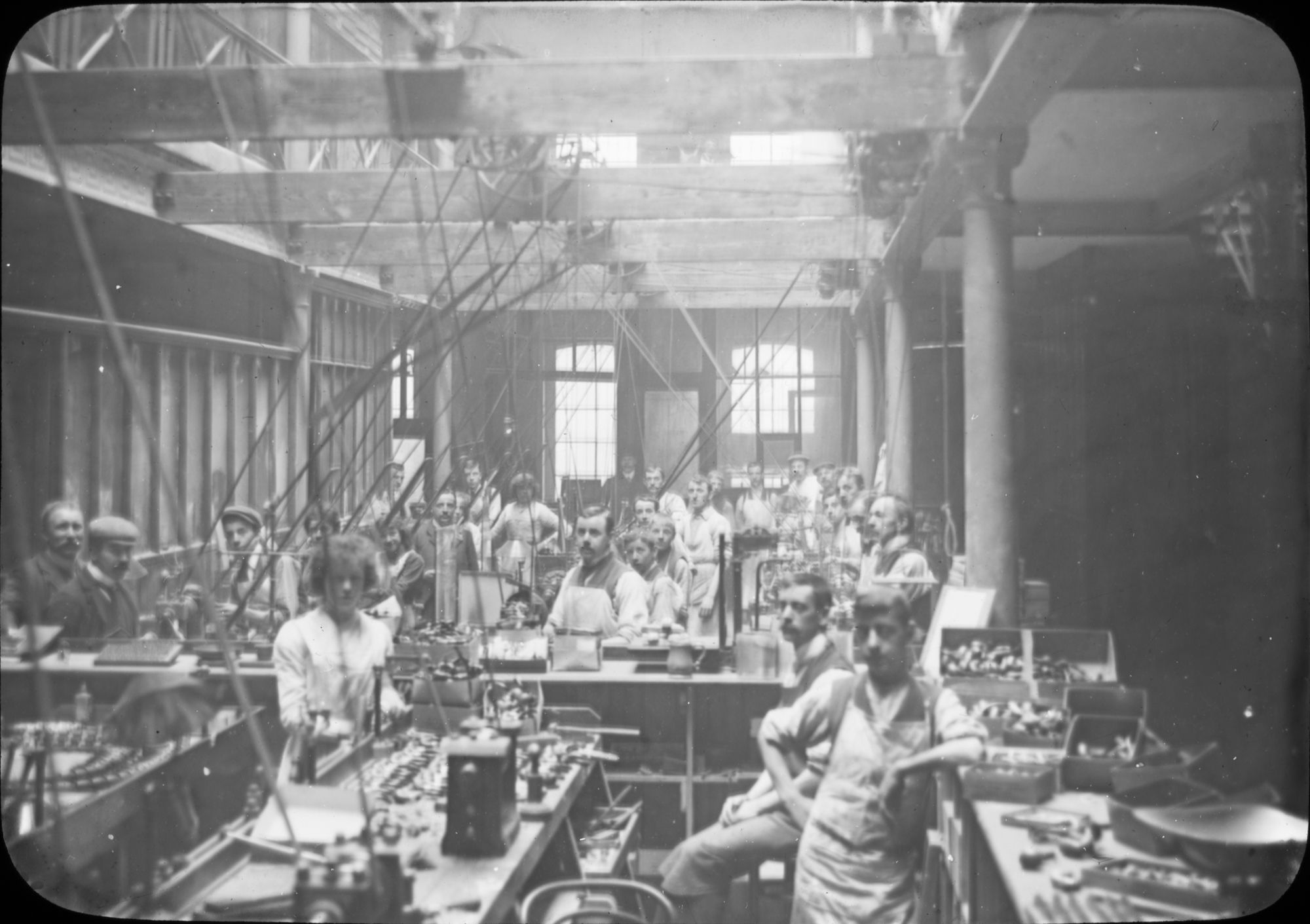 What was once a thriving industry and considered the height of fashion is today almost invisible - pipe smoking! While Kapp and Peterson still exist they are a fraction of what they once were. I always loved the smell of pipe smoke as distinct from cigarette smoke! A few weeks ago we bought a brand new Locomotive air horn, the Leslie S5T, with five "chimes" - to be known hereafter as our "People Identified Horn" I just got it installed yesterday and I now have a big red button on my desk. Low and behold after hearing from [/photos/mise-le-meas/ aidanhodson] I immediately pressed the button and shattered the nerves of most of the "Silence Please" brigade who were visiting the library this afternoon. Aiden tells us that "In the workforce photo uploaded by Sharon Corbet, M13/15 my granduncle Frank Porter is fourth from the right, third row from the front. His younger sister my grandmother Lily Porter also worked in K & P, from 1911 when she turned 14. She met her future husband Harry Hodson, my grandfather at K &P." Photographer: Thomas H. Mason Collection: [#//catalogue.nli.ie/Collection/vtls000029624# The Mason Photographic Collection] Date: ca. 1890-1910 NLI Ref: M13/8 You can also view this image, and many thousands of others, on the NLI’s catalogue at